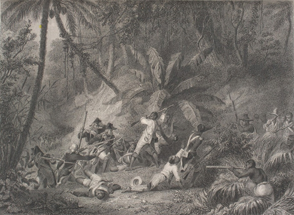 "St. Domingue: Prise De La Ravine Aux Couleuvres." (Saint Domingue: Capture of Ravine-à-Couleuvres) Depiction of the Battle of Ravine-à-Couleuvres (23 February 1802), during the Haitian Revolution. Published in: Lanfrey, Pierre (1871-1879). The history of Napoleon the First. London, New York: Macmillan and Co., vol. 2, part 1, opp. p. 146. OCLC 545943